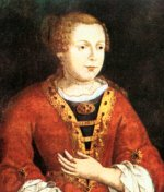 Theresa, Countess of Portugal